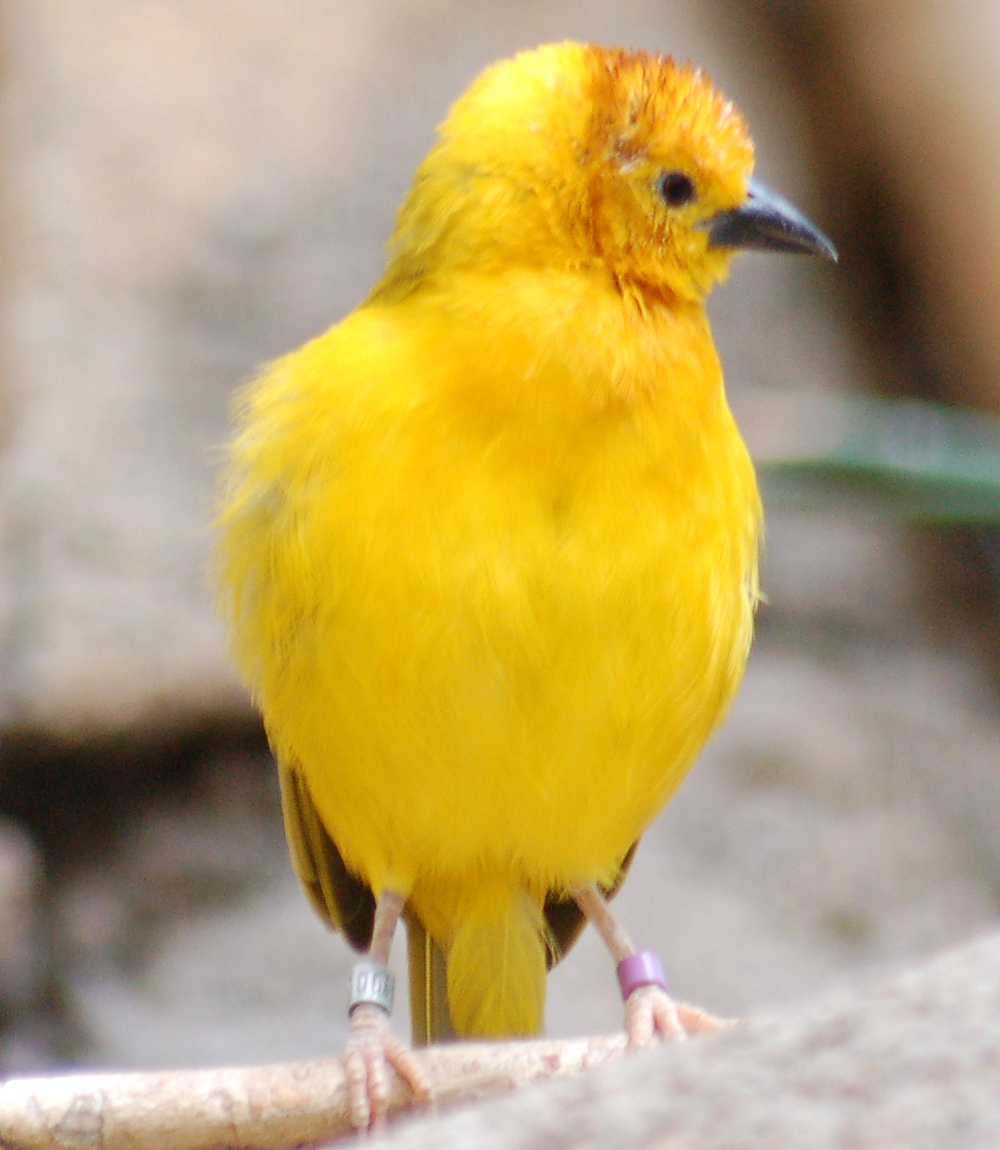 A photograph of Taveta Golden-weaveren (Ploceus castaneiceps en ). Photo taken at the National Aviary.